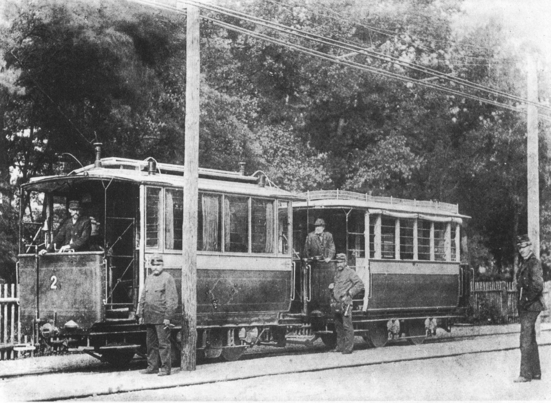 Historical photo of the first type of cars of Lokalbahn (tram) Mödling–Hinterbrühl